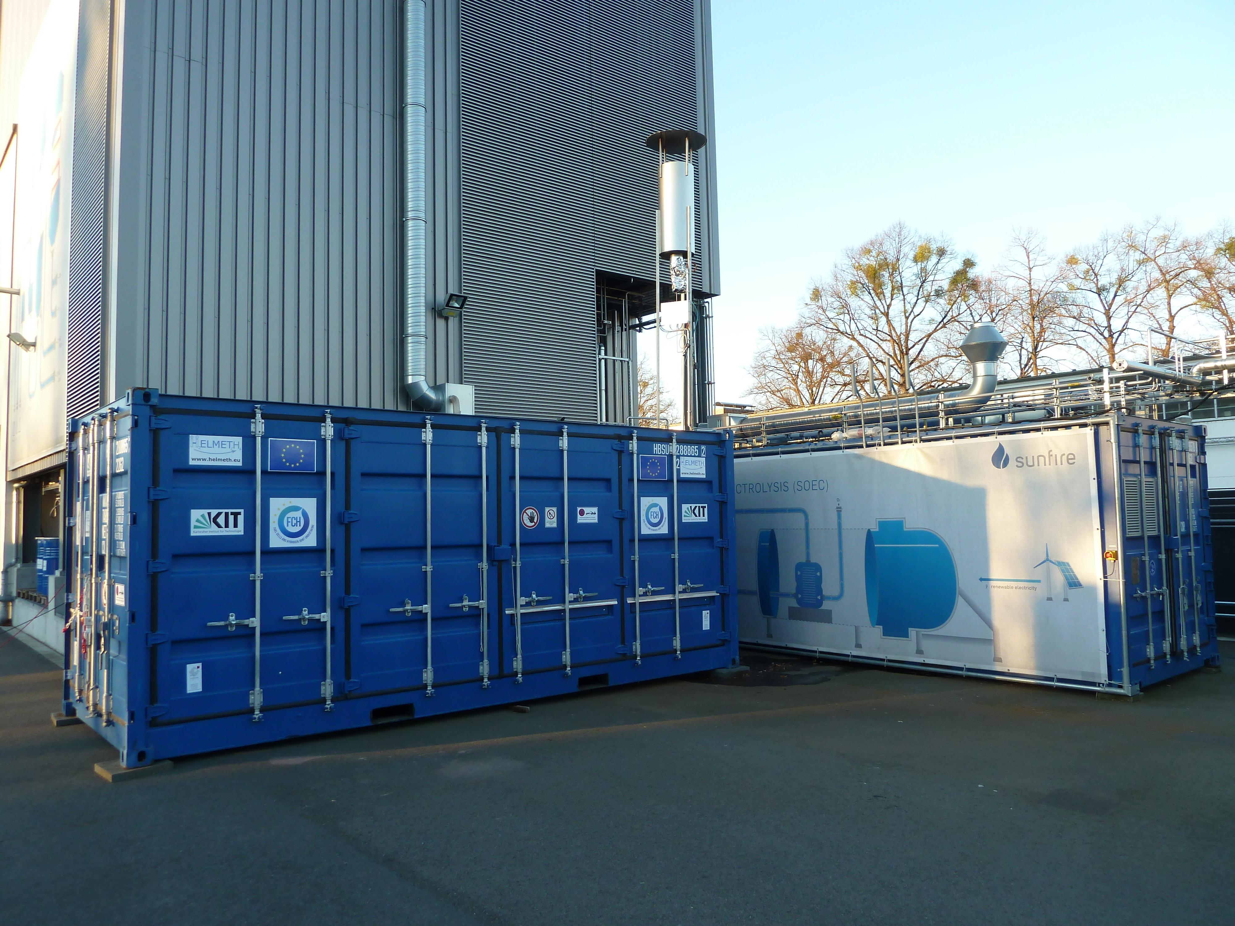 Helmeth Power-to-Gas prototype. Consisting of CO2-methanation (left) and pressurized high temperature steam electrolysis (right)